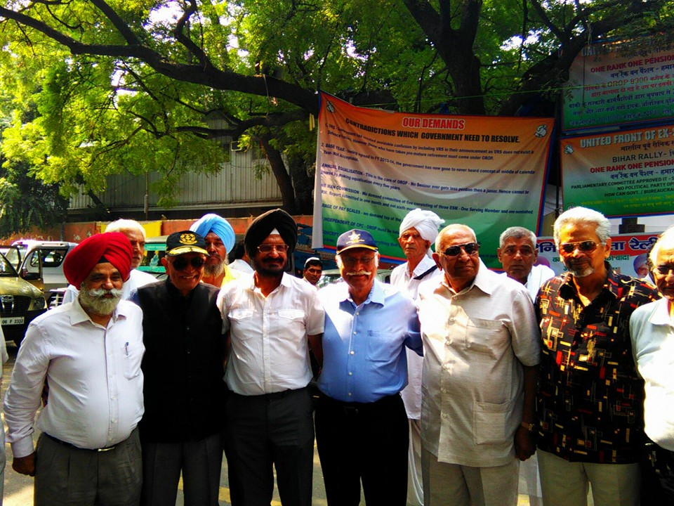 OROP-RS-JM Protest